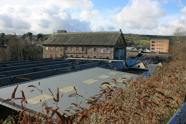 Hamlyns's Mill, Buckfastleigh. This was taken from the car park of the newish industrial units to the north. In front are the single storey weaving sheds, a later addition to the original 4 storey woollen mill 1222374 in the centre that was originally owned by the Hamlyn family. There is a long history of tanning skins, and spinning and weaving woollen products in Buckfastleigh. The mills were originally powered by streams flowing off Dartmoor, and yarn is still produced in the town to be made into Axminster carpets. To the right can be seen a newer woollen mill 1222391 that like Hamlyn's mill is no longer working.